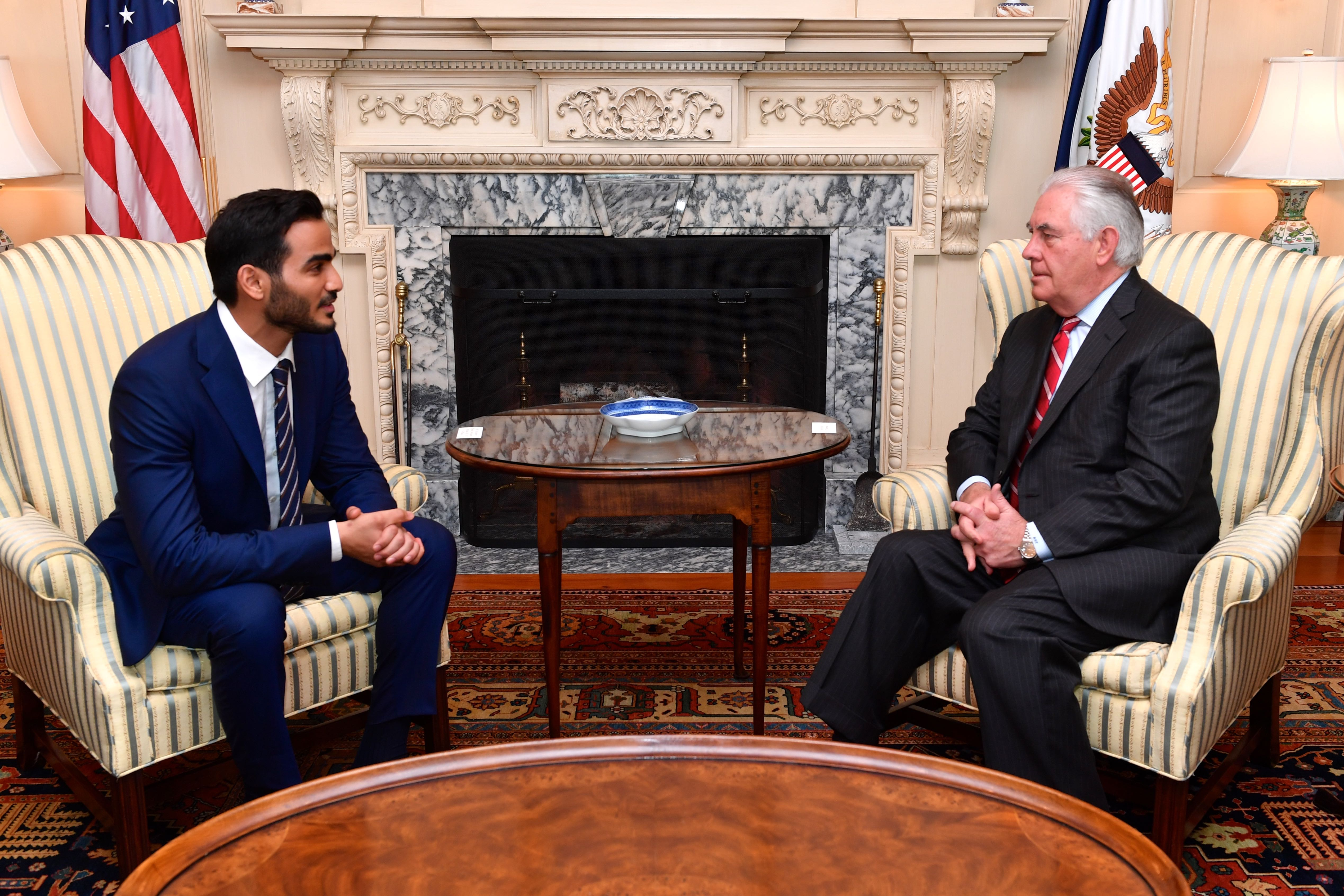 U.S. Secretary of State Rex Tillerson meets with Tillerson meets with Qatari Secretary to the Emir for Investments Sheikh Mohammed bin Hamad bin Khalifa Al Thani, at the U.S. Department of State in Washington, D.C., on June 16, 2017. [State Department photo/ Public Domain]